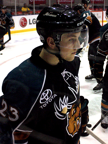 Manitoba Moose forward Jordan Schroeder during a game against the Toronto Marlies on April 3, 2010.